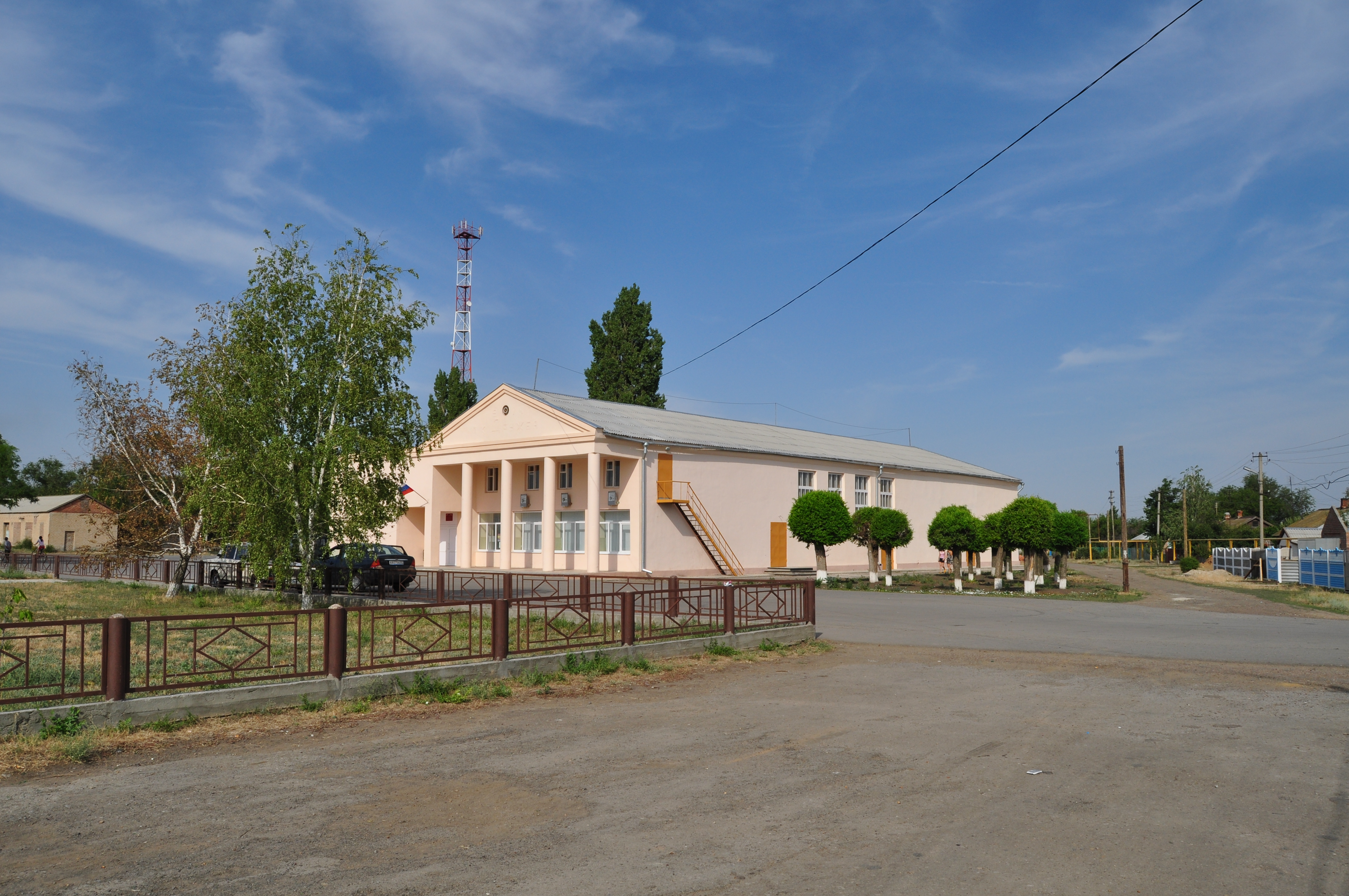 Zimovnikovsky district of Rostov region